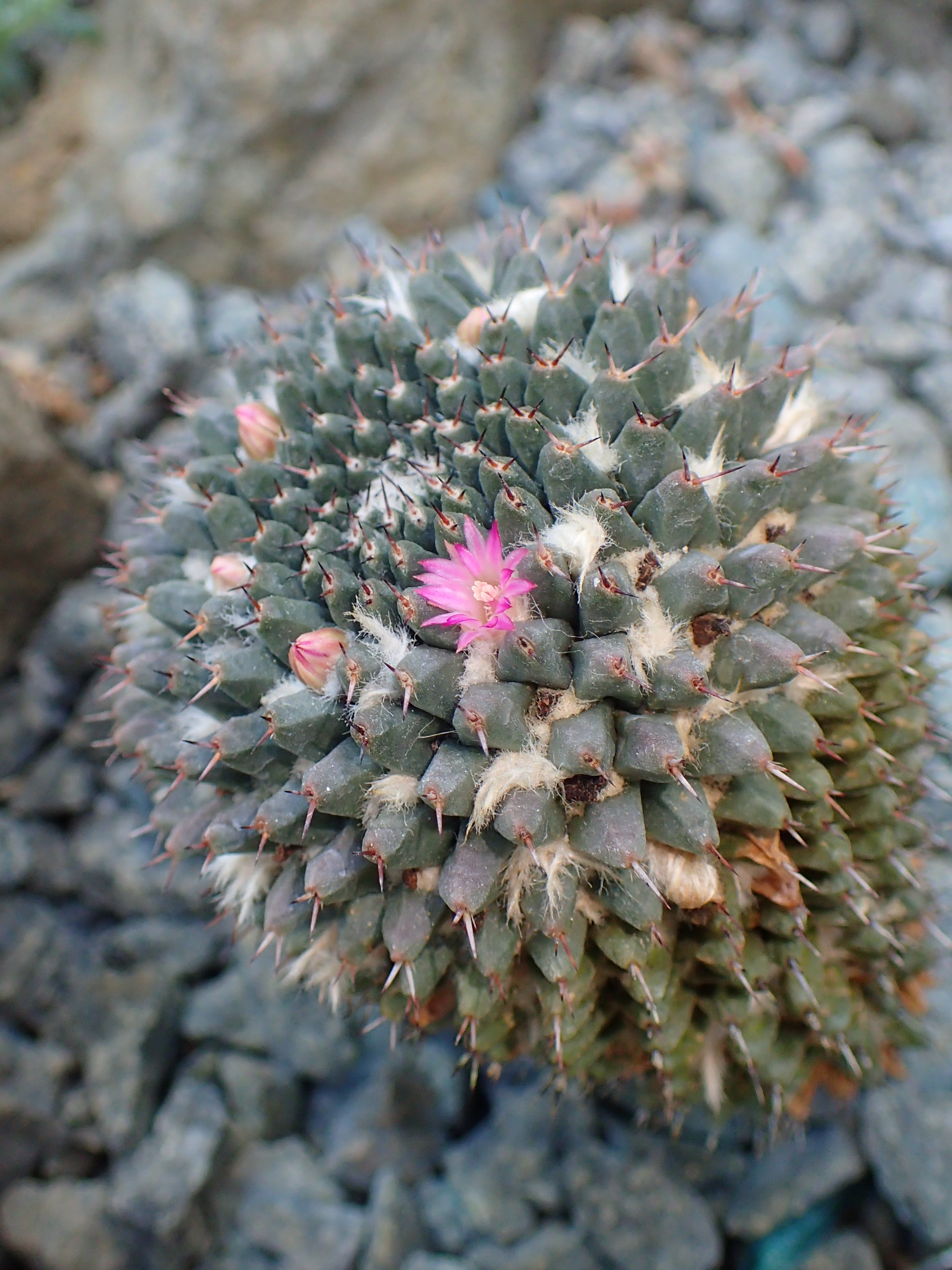 Mammillaria sempervivi in Jibou Botanical Garden